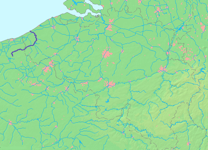 Map of the river IJzer